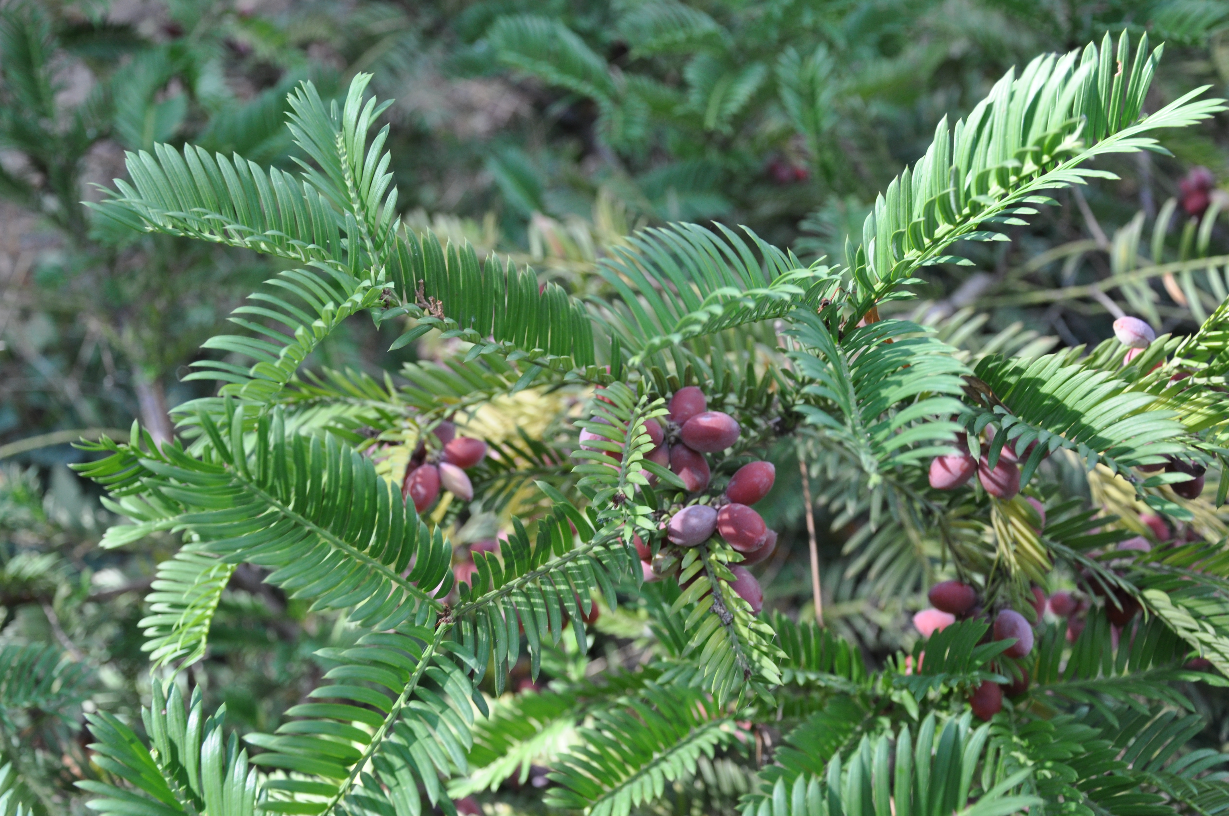 Taken in Bathumi